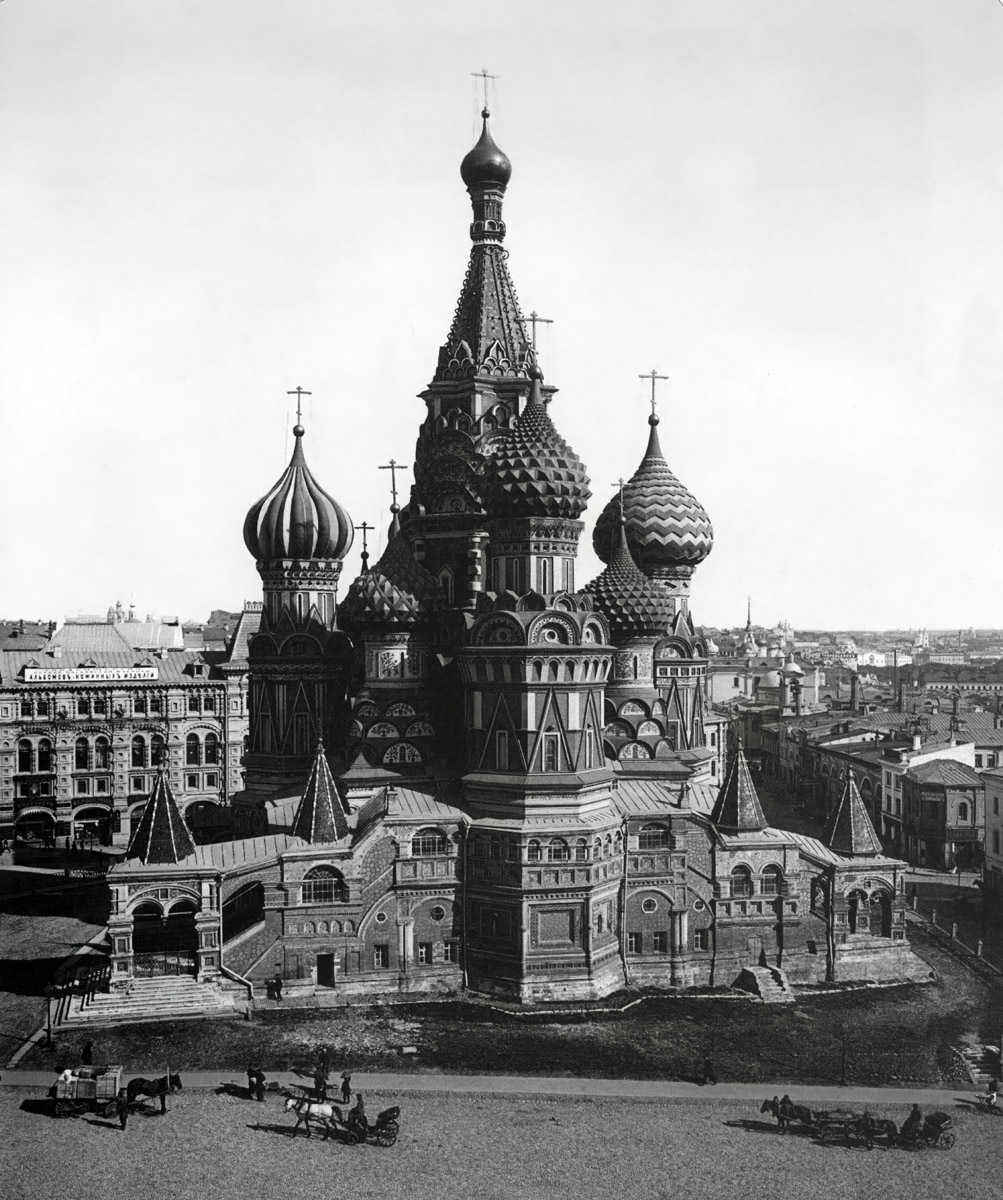 St'Basils Cathedral in 1900s. Western facade ("Entry into Jerusalem".